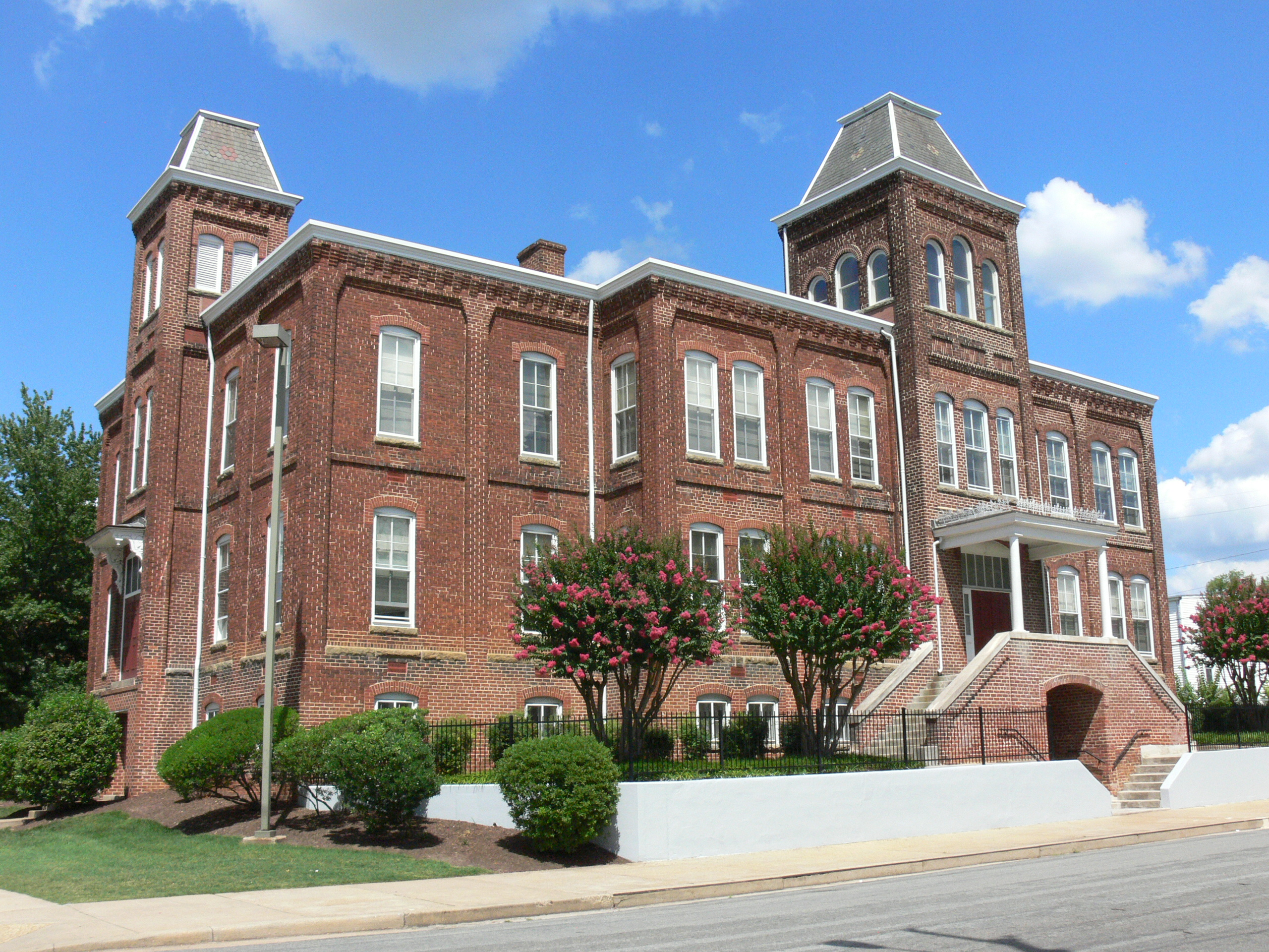 The Fairmount School in the Fairmount neighborhood of Richmond, Virginia; on the National Register of Historic Places